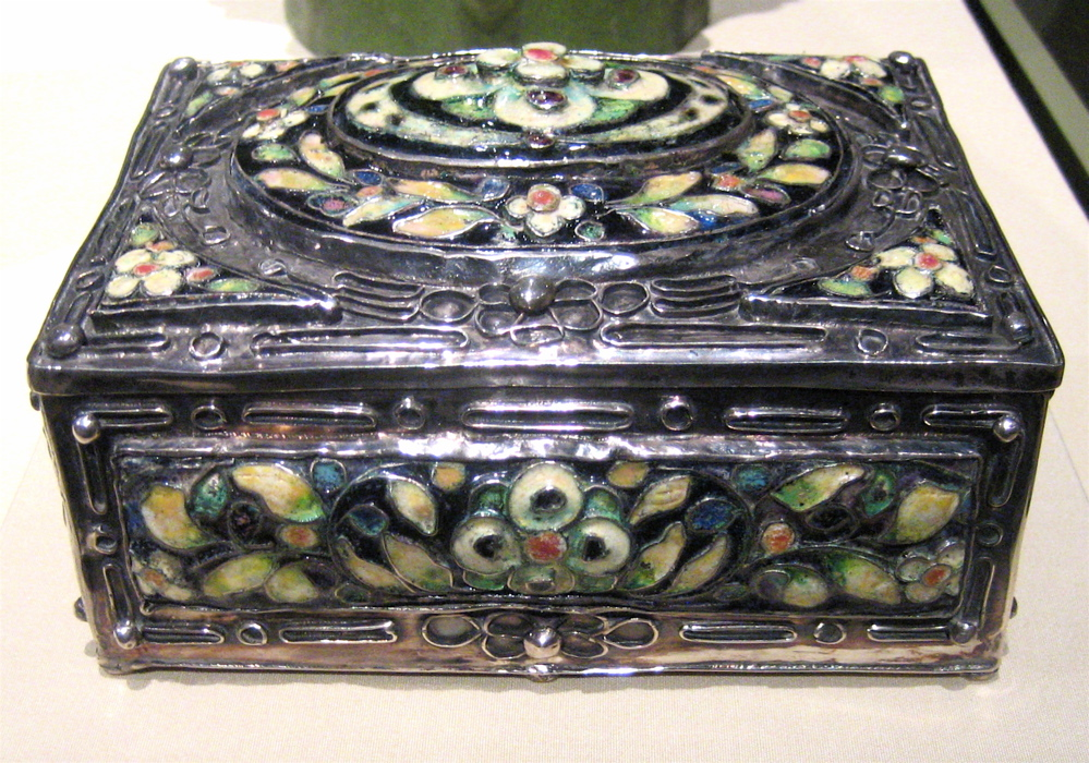 Elizabeth E. Copeland (United States, 1866 - 1957) Covered Box, circa 1915 Metalwork, Silver and cloisonné enamel, 3 3/8 x 6 1/4 x 4 3/4 in. (8.57 x 15.88 x 12.07 cm) Purchased with funds provided by the American Decorative Art 1900 Foundation and the Decorative Arts Deaccession Fund (M.2007.57) Wikipedia Loves Art at the Los Angeles County Museum of Art This photo of item # M.2007.57 at the Los Angeles County Museum of Art was contributed under the team name "artifacts" as part of the Wikipedia Loves Art project in February 2009. Los Angeles County Museum of Art The original photograph on Flickr was taken by Beesnest McClain—please add a comment to the original Flickr page whenever a use has been made on Wikipedia or another project. Project galleries on Flickr: this institution, this team